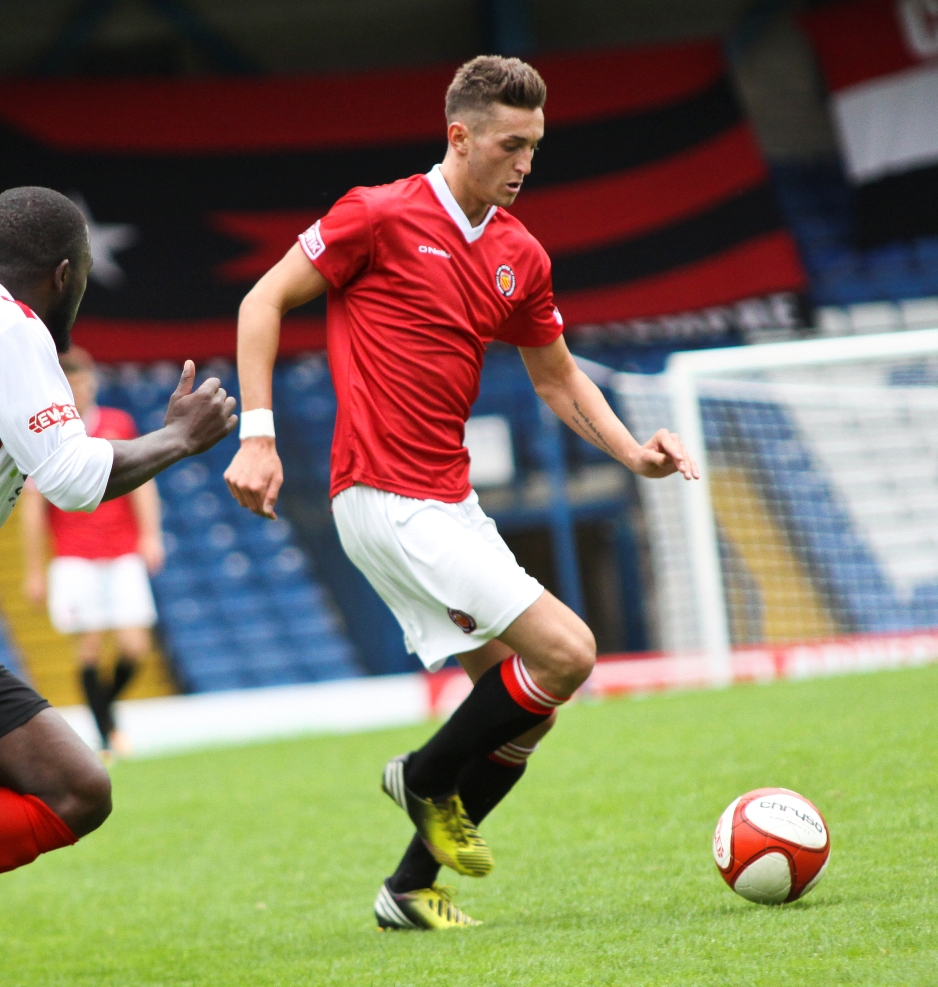 Ollie Banks playing for FC United of Manchester in a league game vs Stamford A.F.C.